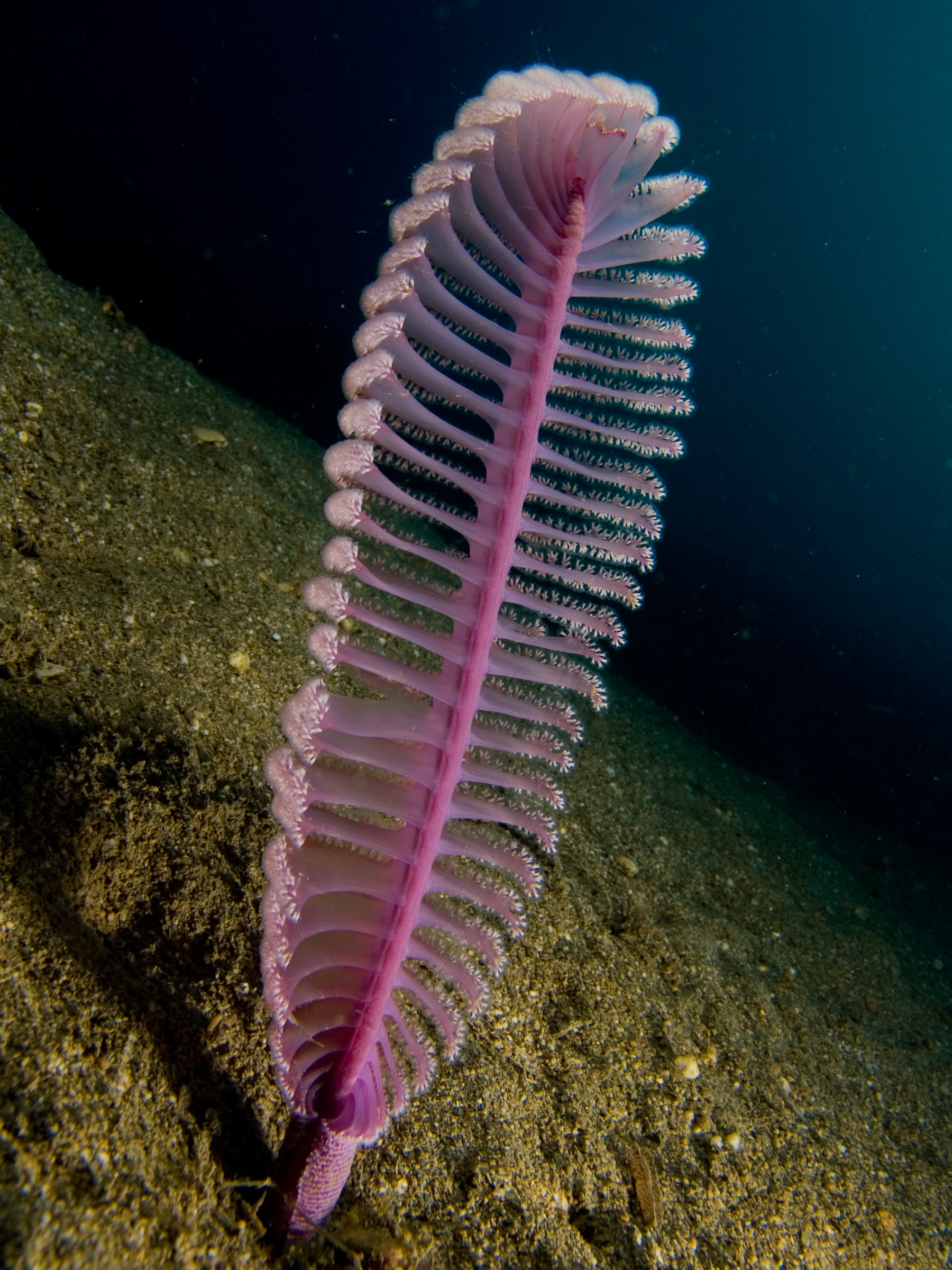 Virgularia sp. (Purple sea pen)